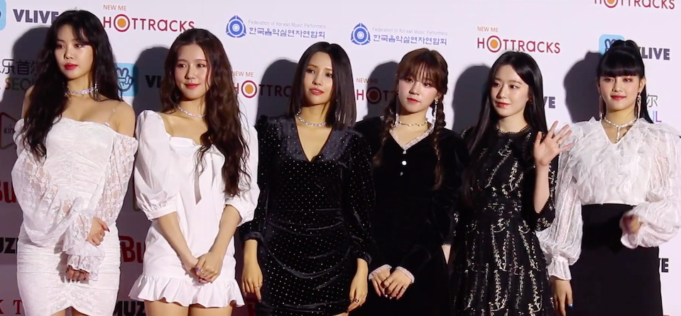 (G)I-dle at Gaon Chart Music Awards red carpet on January 8, 2020.